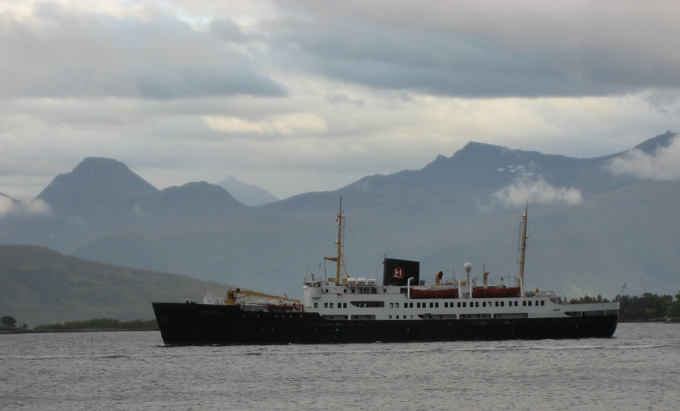 Coastal express ship (Hurtigruten) MS Nordstjernen